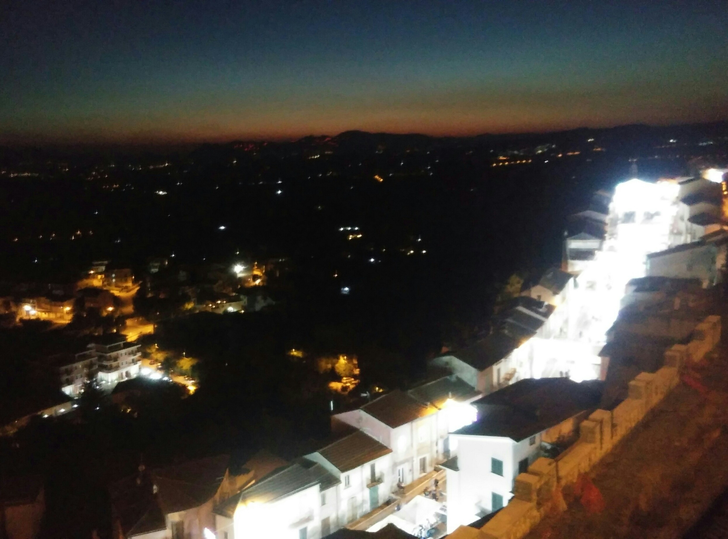 Dusk in Ariano Irpino